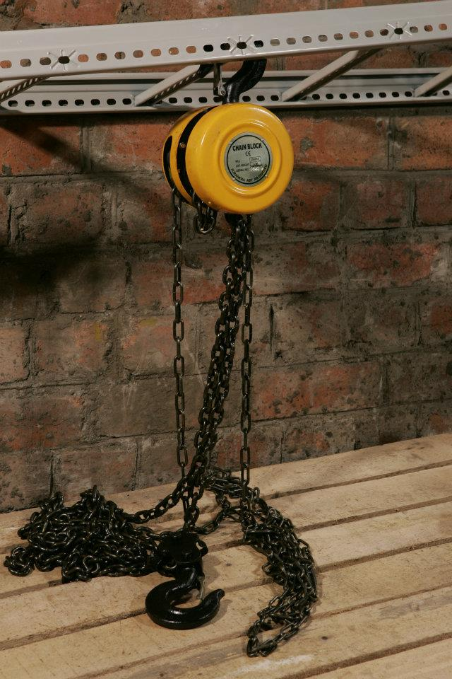 A chain hoist.